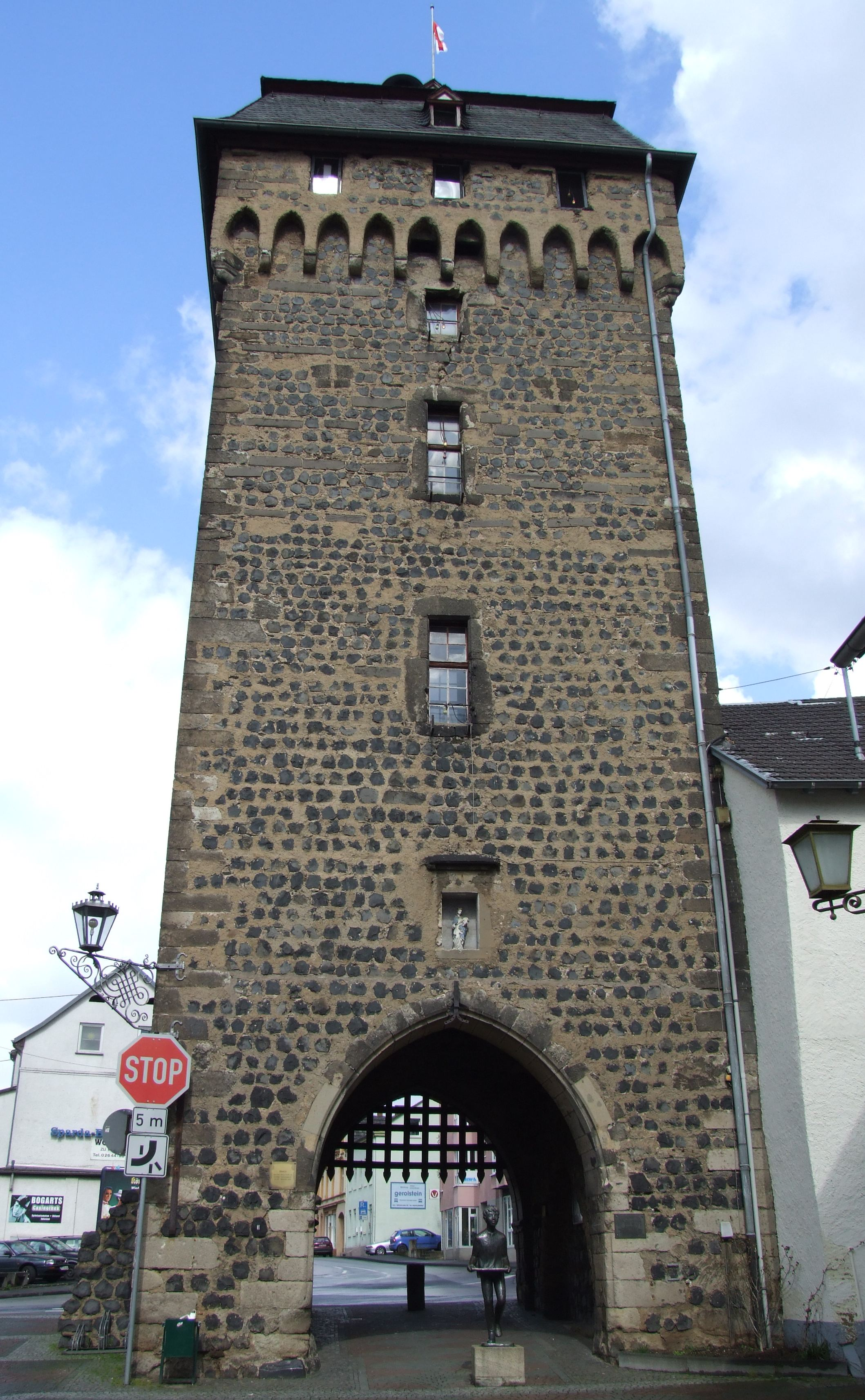 Neutor in Linz am Rhein with the Linzer Klapperjunge